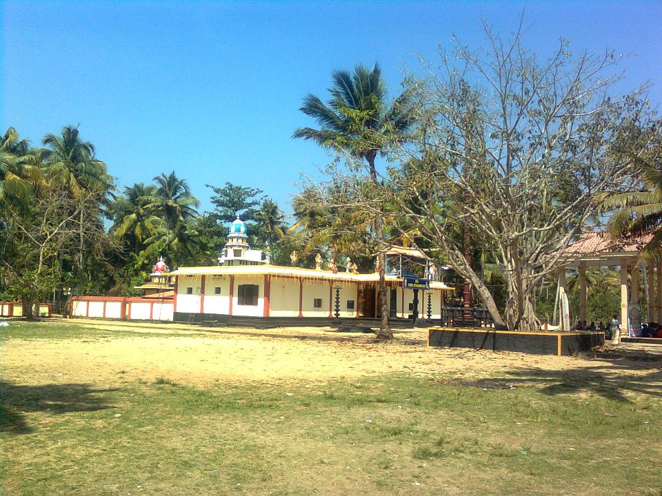 it's a temple pic